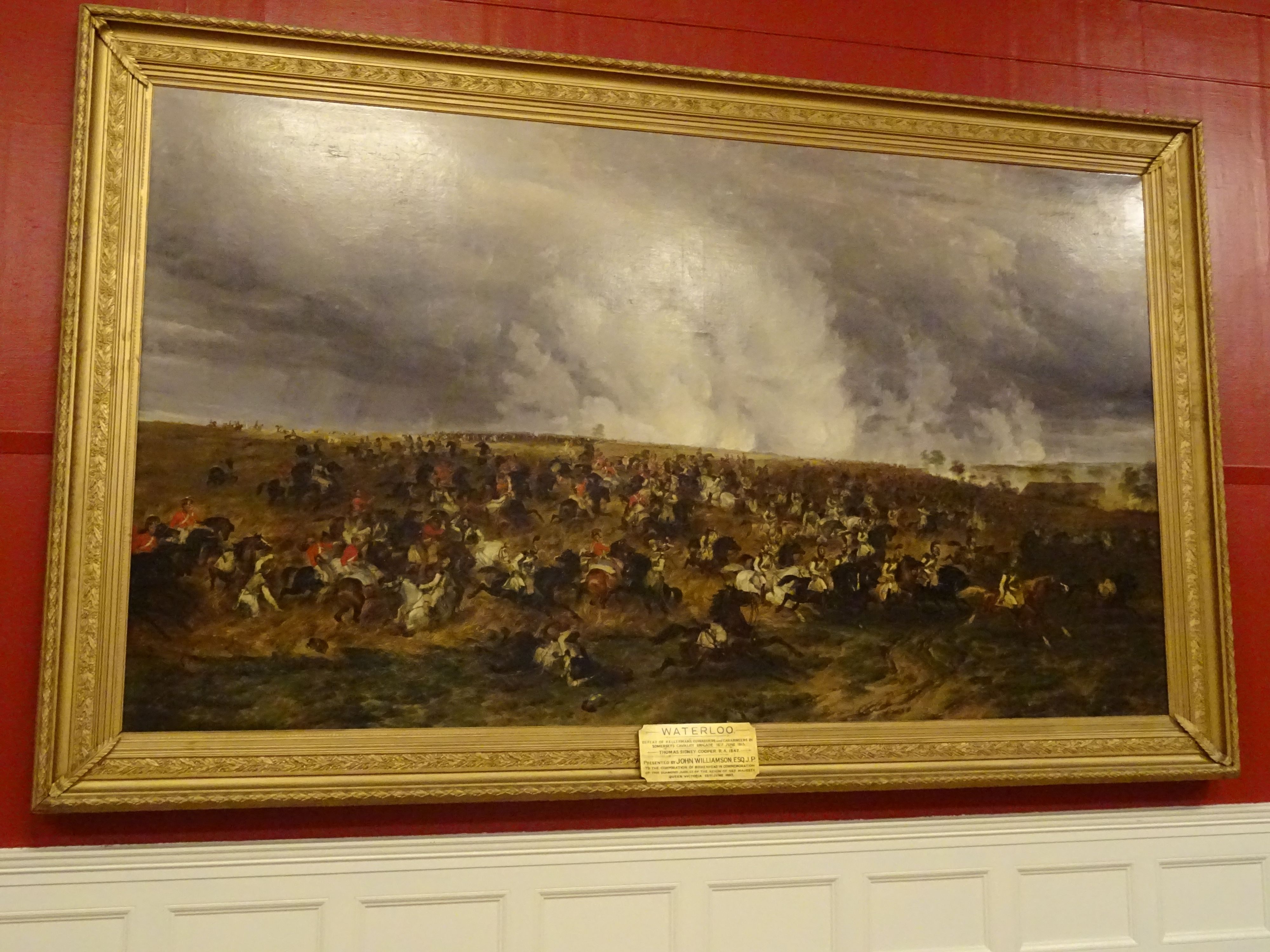 The Battle of Waterloo, painting by Thomas Sidney Cooper, 1847. Williamson Art Gallery, Birkenhead, Merseyside, England.